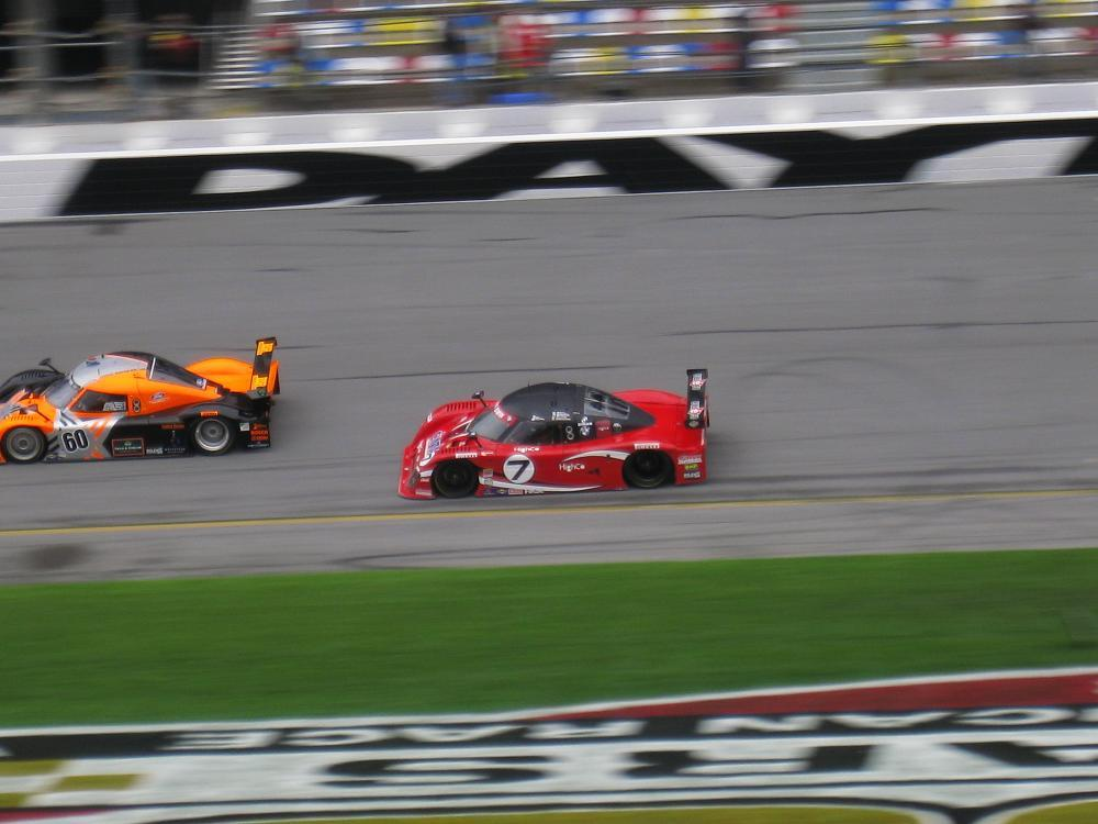 Daytona Prototypes in the 2008 Rolex24